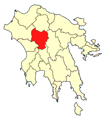 gortynia